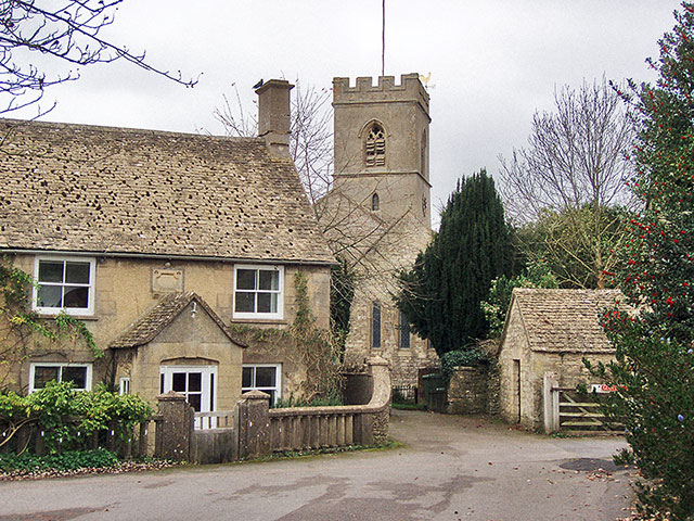 Stonesfield, Oxfordshire: view southwest from The Cross to St James' parish church. On the left is Protestant House, built in the 17th or 18th century.